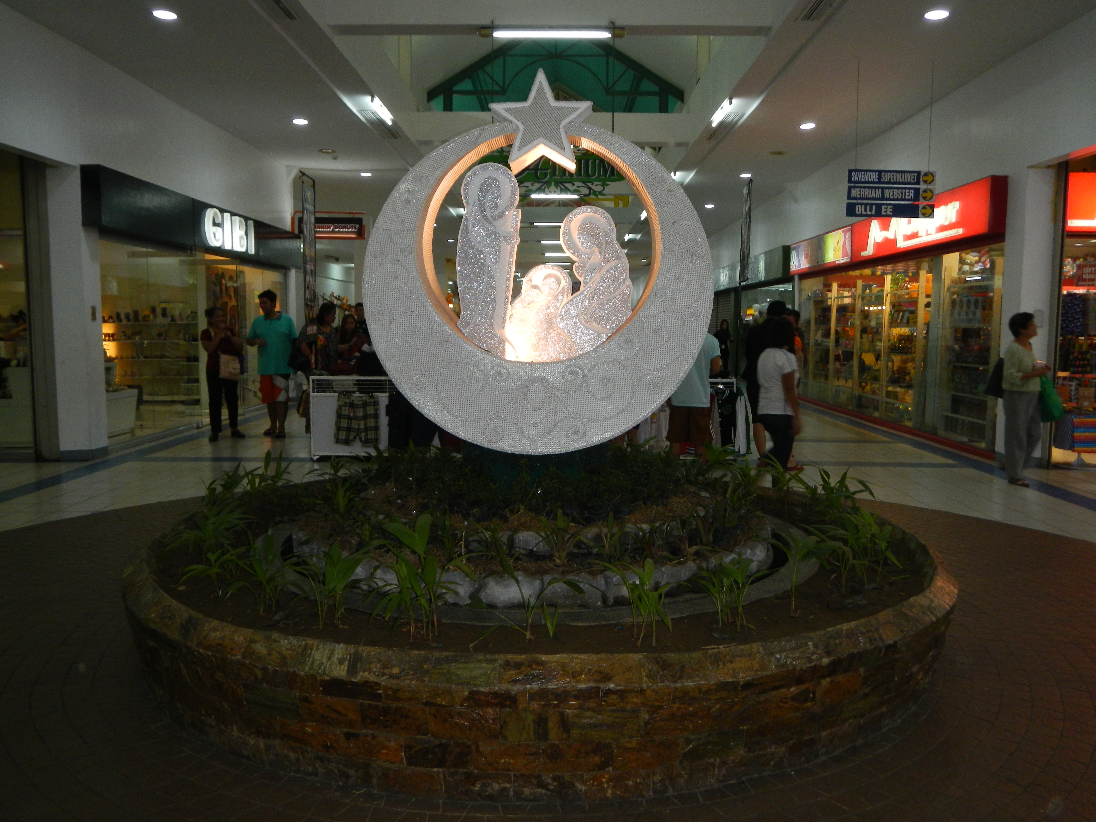 Upload Wizard photos of Marikina City [1] Hall Complex Compound -- Shoe Capital of the Philippines - Riverland Express locomotive, Jeep terminal, Marikina Sports Park, Riverbanks Center[2], including the Riverbank Mall, the Marikina City skyline, Marcos Highway,[3] Roman Garden at Marikina River[4] Park - Riverbanks Marikina a mall and office complex located off of Andres Bonifacio Avenue, Barangay Barangka, Marikina [5]City, near the Marcos Bridge over the Marikina River - world's largest pair of shoes are on display at Riverbank Center. 5.29 metres (17.4 ft) long and 2.37 metres 7 ft 9 in wide, equivalent to a French shoe size of 753, they were created over 77 days between August 5 and October 21, 2002 by Marikina City shoe industry businesspeople.